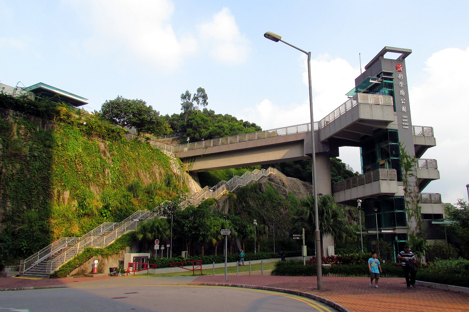 Choi Wing Road Park entrance, Hong Kong